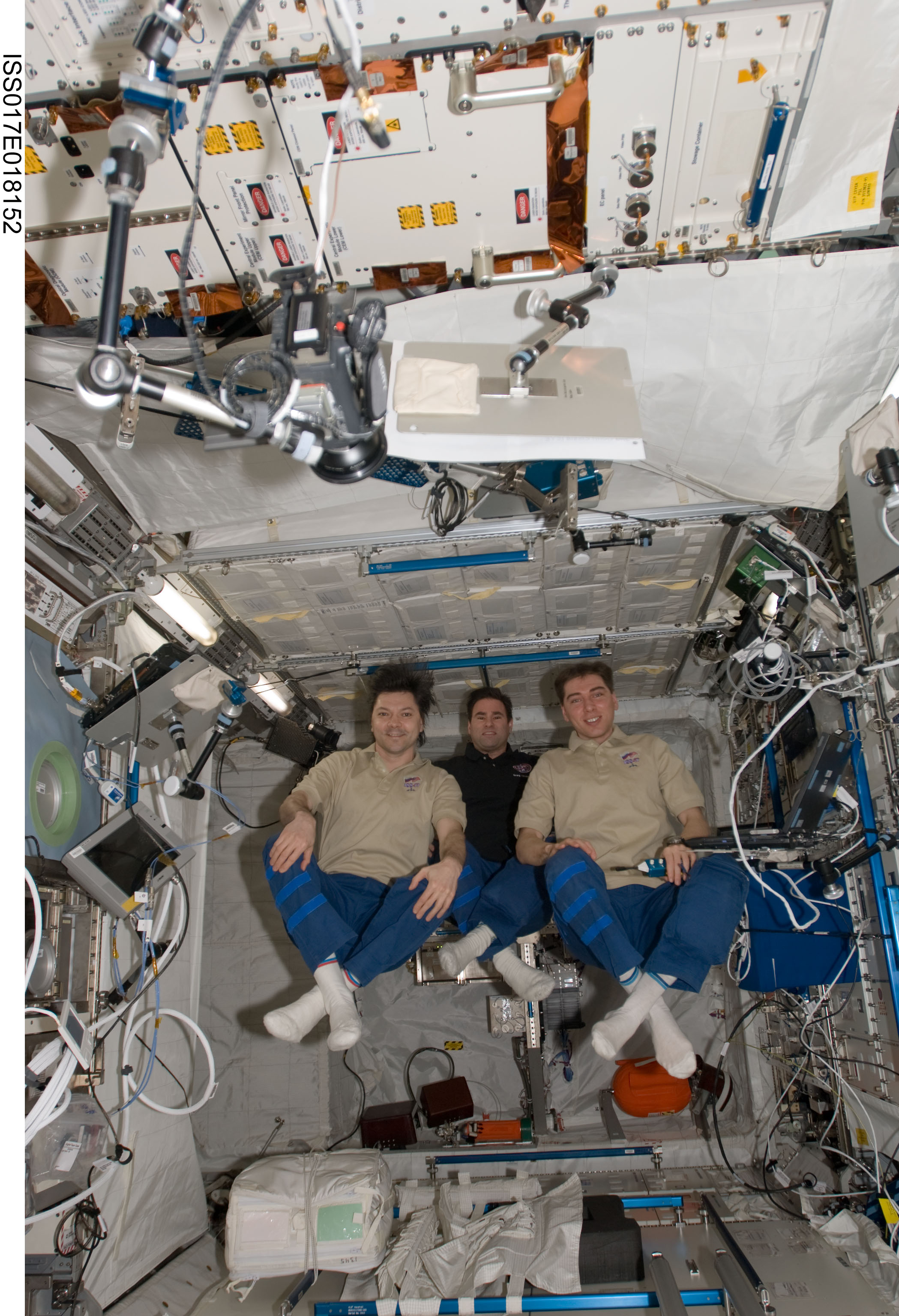 Russian Federal Space Agency cosmonauts Sergei Volkov (right), Expedition 17 commander; Oleg Kononenko (left) and NASA astronaut Greg Chamitoff, both flight engineers, participate in a press conference in the Columbus laboratory of the International Space Station.